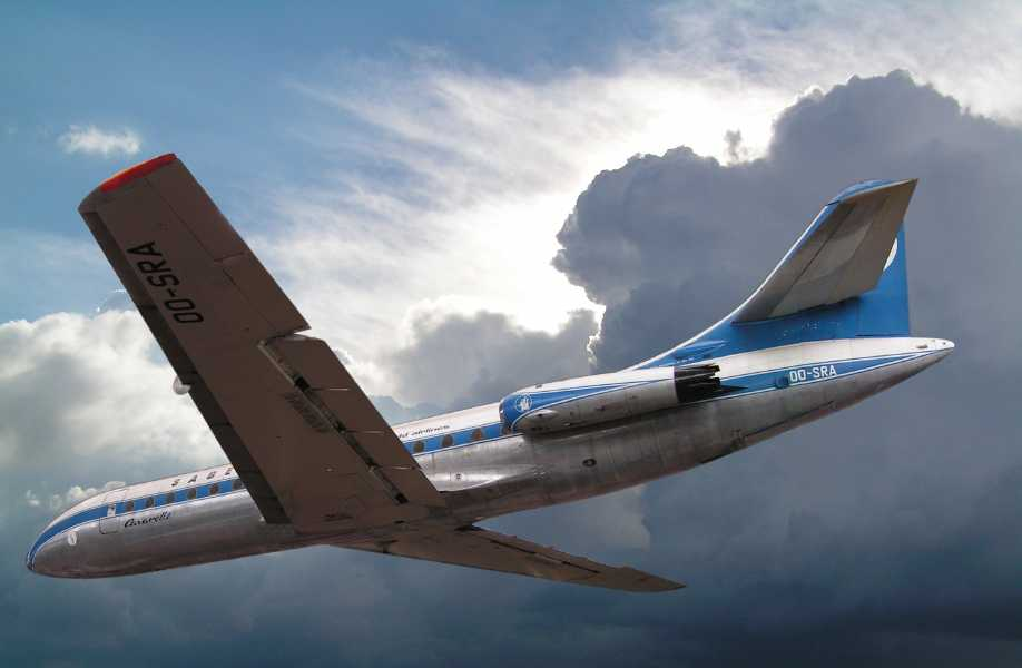 Sud Aviation Caravelle in the colors of SABENA